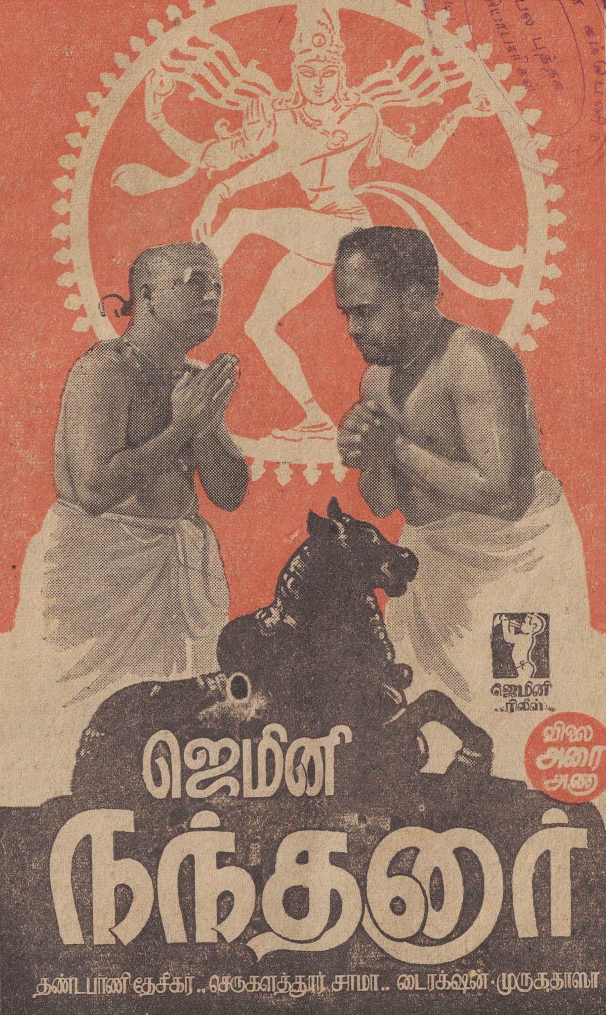 Poster for the 1942 South Indian Tamil film Nandanar